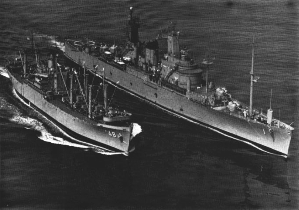 The U.S. Navy stores ship USS Alstede (AF-48) replenishes the command ship USS Northampton (CC-1), circa 1964.